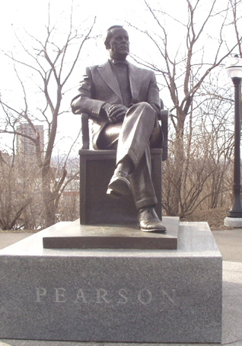 Self-taken photo. Statue of Lester B. Pearson on Parliament Hill in Ottawa.